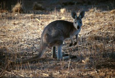 Photgraphed by Silke Sohler, Germany;own work; 1999; Motawingi; Broken Hille NSW AUS Canon EOS 1000F/Color slide